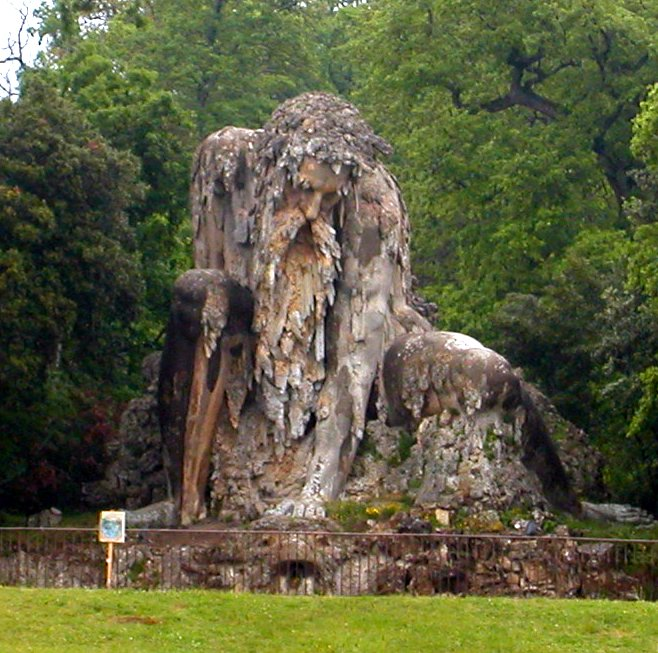 Sculpture of "Appennino" from Giambologna. Located in Villa di Pratolino, Pratolino (Florence, Italy)